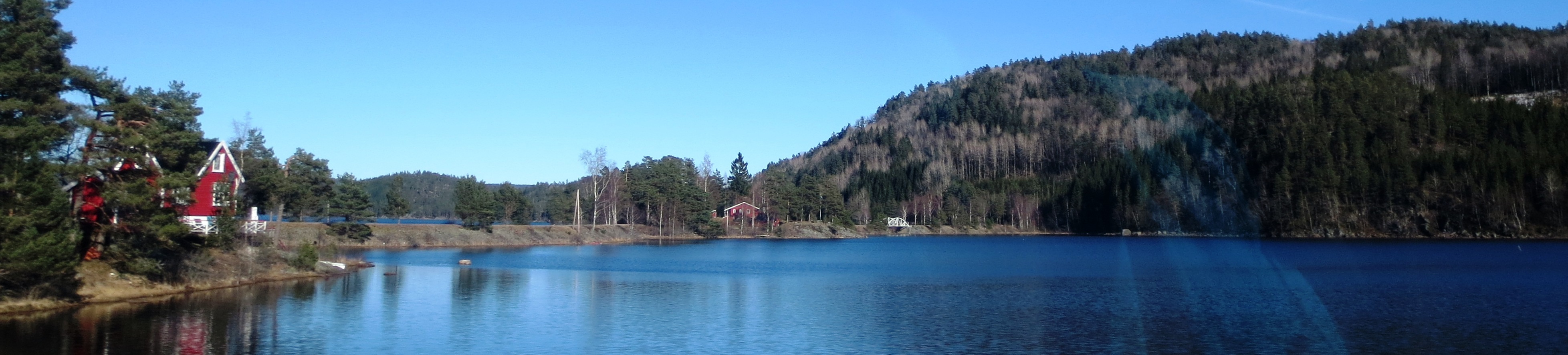 Image from along the RV 9 national road in western Vennesla municipality, Vest-Agder county, south Norway